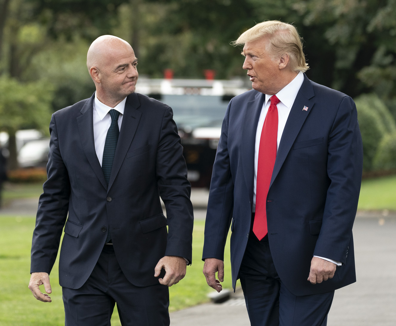 President Donald J. Trump joined by FIFA President Gianni Infantino talks to members of the press on the South Lawn of the White House Monday, Sep. 9, 2019, prior to boarding Marine One to begin his trip to North Carolina. (Official White House Photo by Joyce N. Boghosian)